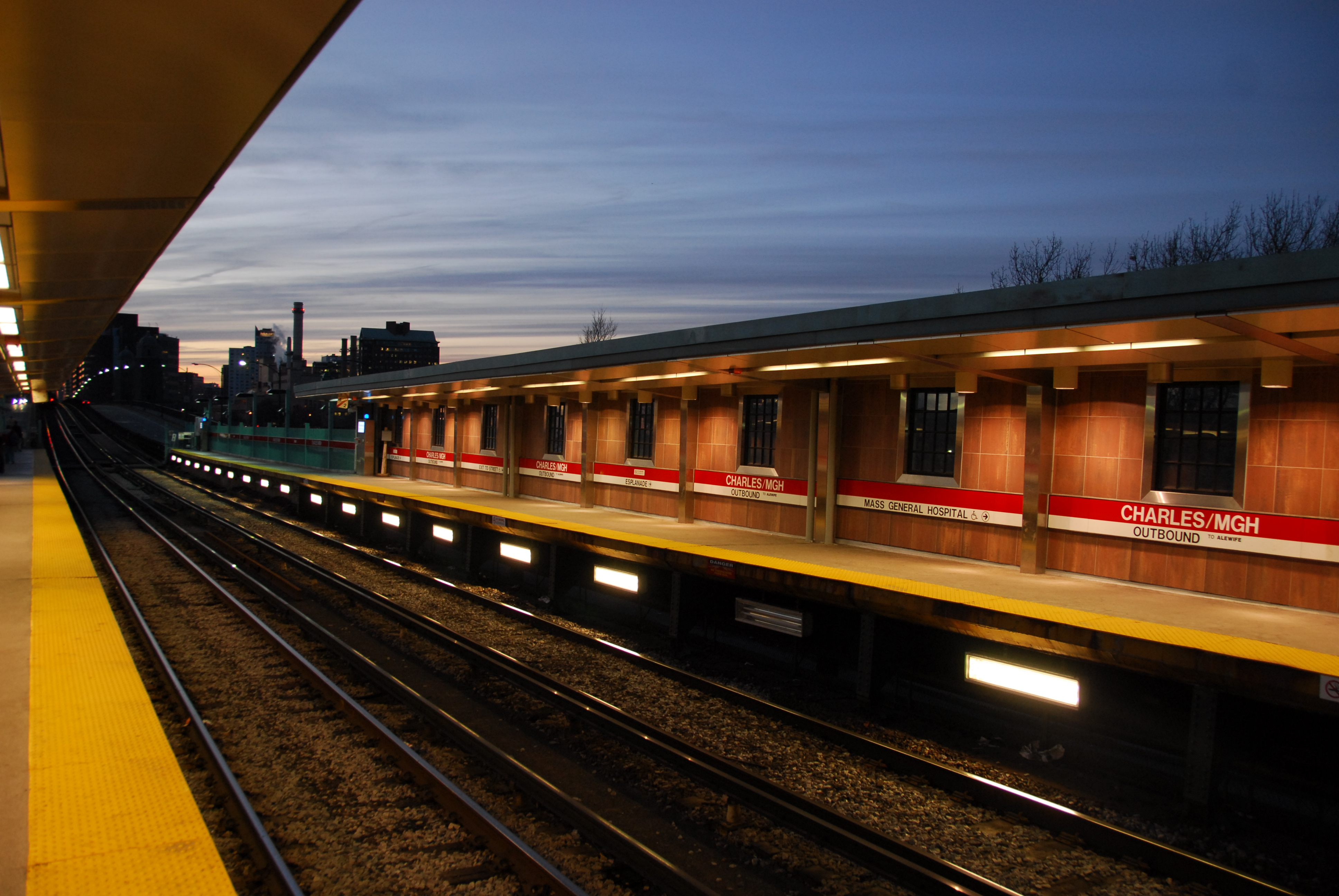 The rebuilt Charles/MGH at twilight, looking onto the Longfellow Bridge